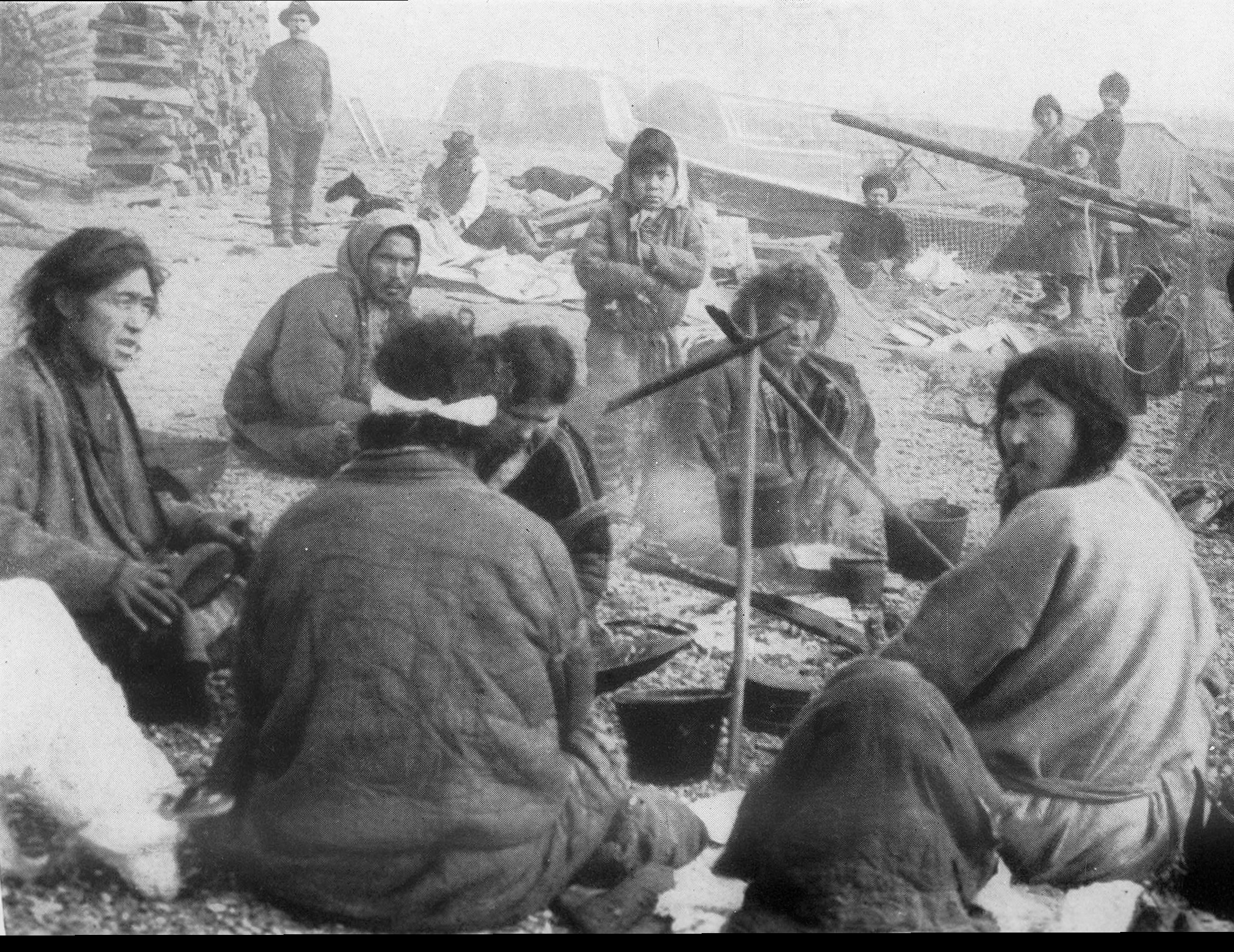 1913 photograph of Ket people around a campfire.